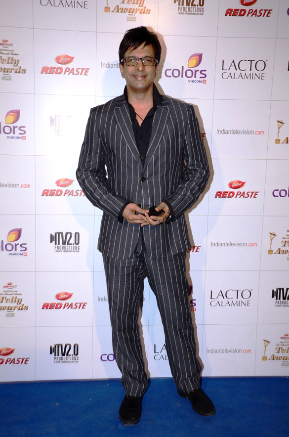 colors indian telly awards